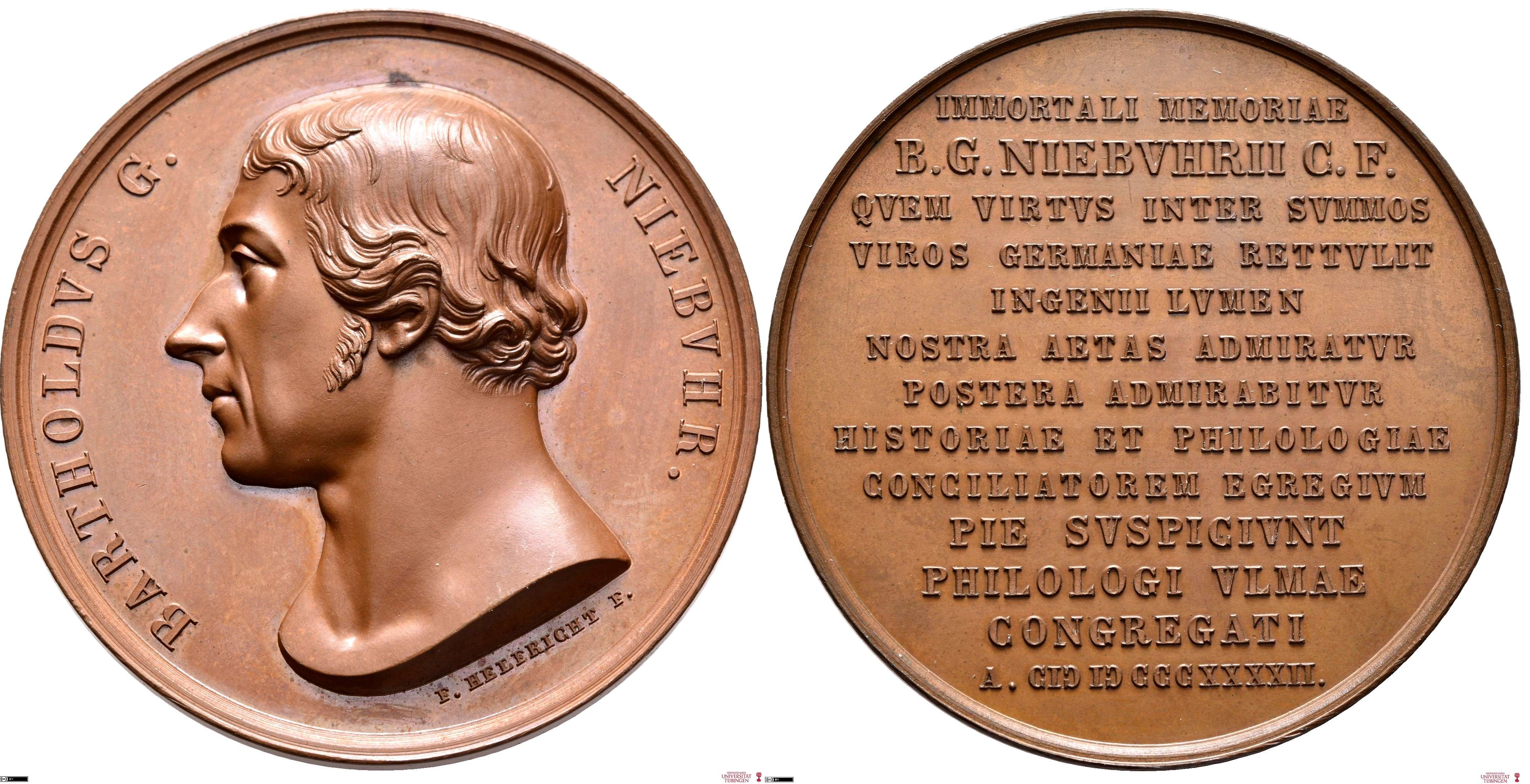 The front side depicts a bust of Niebuhr surrounded by his name in Latin. The engraver Ferdiand Helfricht signed below the bust. The back side consists only of a Latin dedication to the late Niebuhr. In the bottom of said text the occasion for strucking this medal is named as the convention of German philologists when it was held 1842 in Ulm.